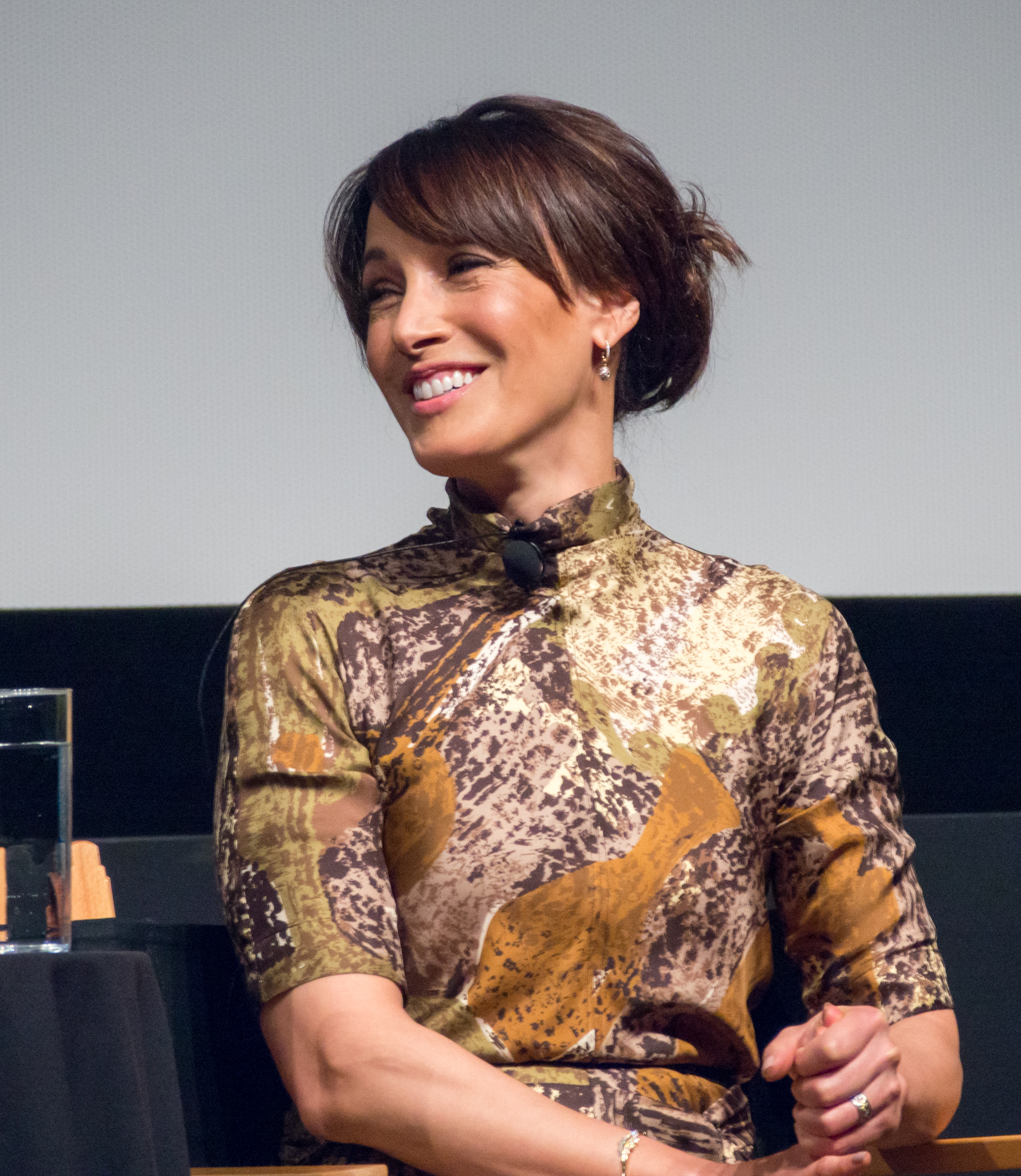 Jennifer Beals during the In the Soup (1992) panel at the 2018 Tribeca Film Festival.